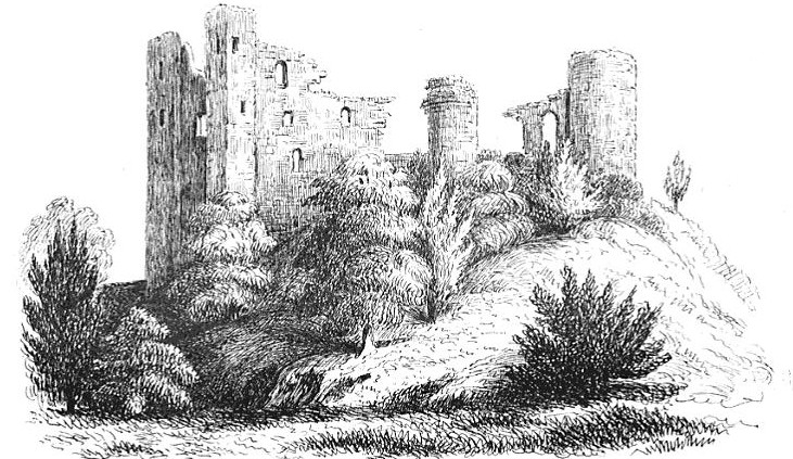 A mid-Victorian sketch of Clun Castle